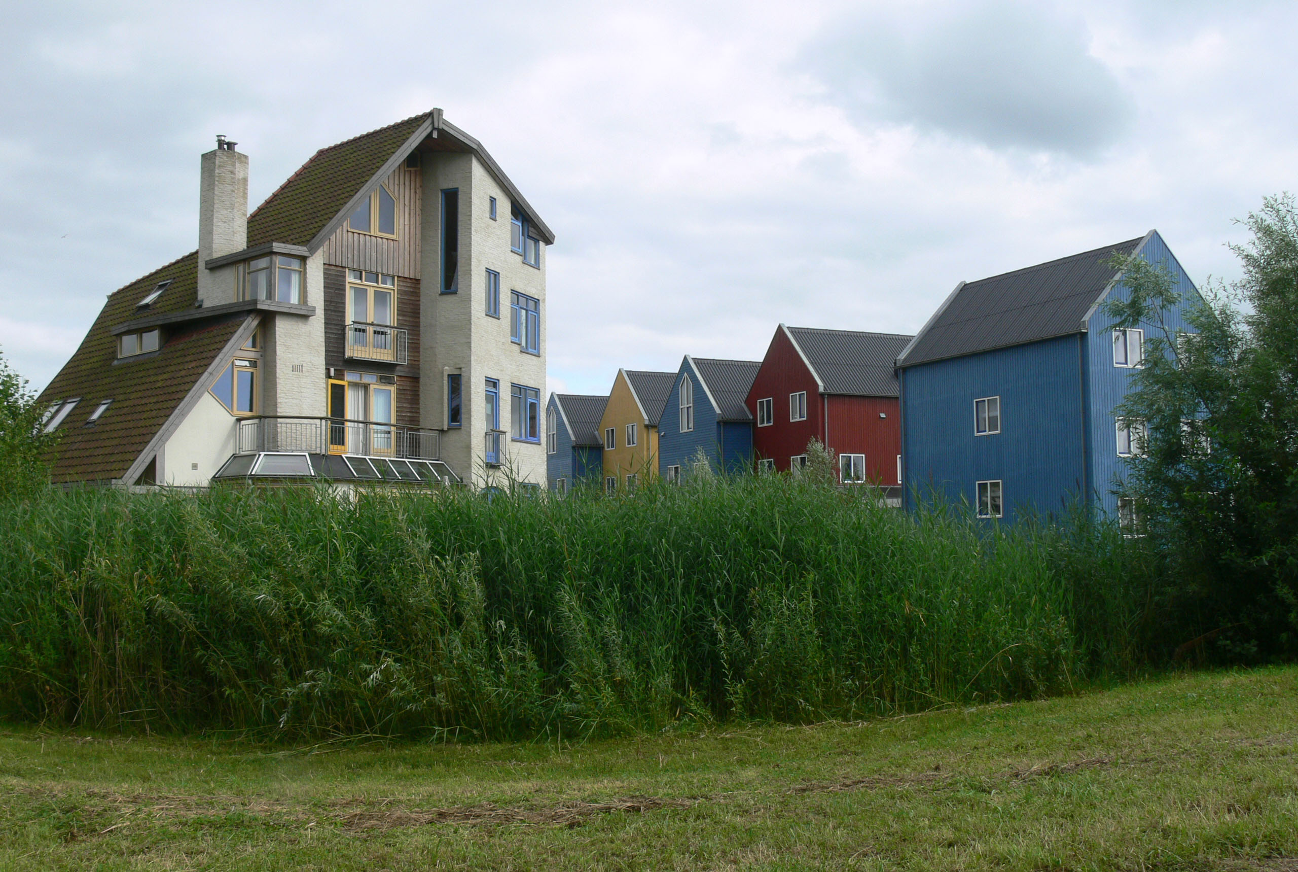 Self-construction in E.V.A. Lanxmeer district (a "green distric" named Lanxmeer, built at Culemborg, The Netherlands), wich is a recent (1994-2009) district (semi-public eco-building) of approximately 250 ecological houses, several offices and a urban farm. The project is based on "Sustainable Implant" with a spatial combinaison of natural systems, technical approach of integrated waste (wastewater) / energy system and écological and social purposes, for an urban neighborhood. The district is in an ecologically sensitive area (former drinking waterextraction and retention area). The conception of this district is based on permaculture, and organic design, a small biogas installation (able to treate black water and organic waste and garden & park waste), a combined Heat Power. Some houses are in closed greenhouse. A semi-public building (the ‘EVA Centre) should yet be made, based on the Living Machine concept.